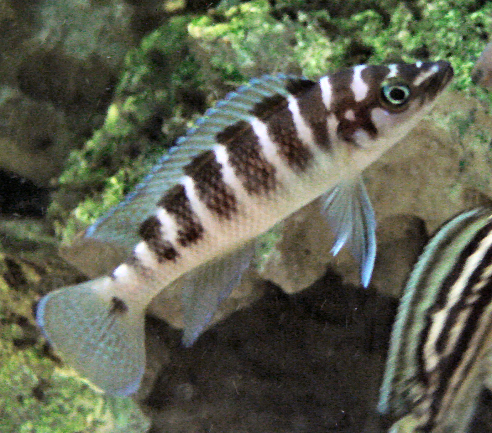 Picture taken in the zoo of Wrocław (Poland): Neolamprologus cylindricus (Staeck & Seegers, 1986)